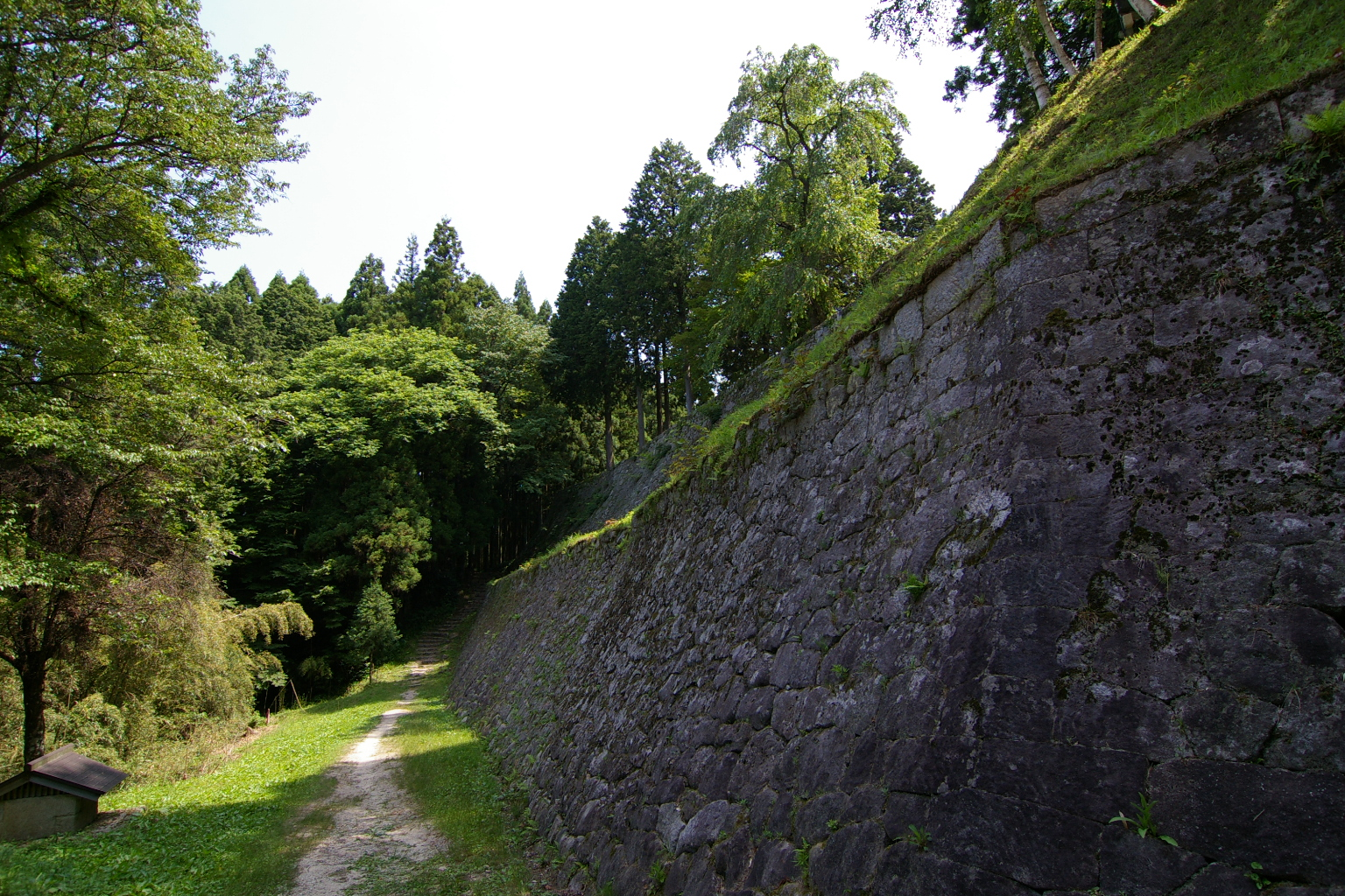 Iwamura Castle (Agi Nakatsugawa City, Gifu Pref, Japan)